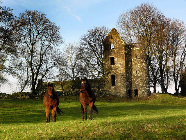 Carscreugh Castle During the 17th century, Carscreugh Castle was the home of Janet Dalrymple, on whom Sir Walter Scott based his heroine Lucy, the Bride of Lammermoor, (who became Lucia di Lammermoor in Donizetti's opera of the same name.) Briefly, the story goes that during the Covenanting era, Janet fell in love with and secretly betrothed to a penniless local man, Archibald Rutherford. Her parents bitterly opposed this liaison and forced her to renounce her vow and marry another man from a wealthy local family, Sir David Dunbar of Baldoon near Wigtown. However something dreadful happened on her wedding night which ended in her death and the wounding of her husband, who ever afterwards refused to divulge to anyone what had occurred that night. While Baldoon Castle is still reputed to be haunted by a "white pig" - Janet's ghost - Carscreugh Castle is said to be haunted by a white lady.